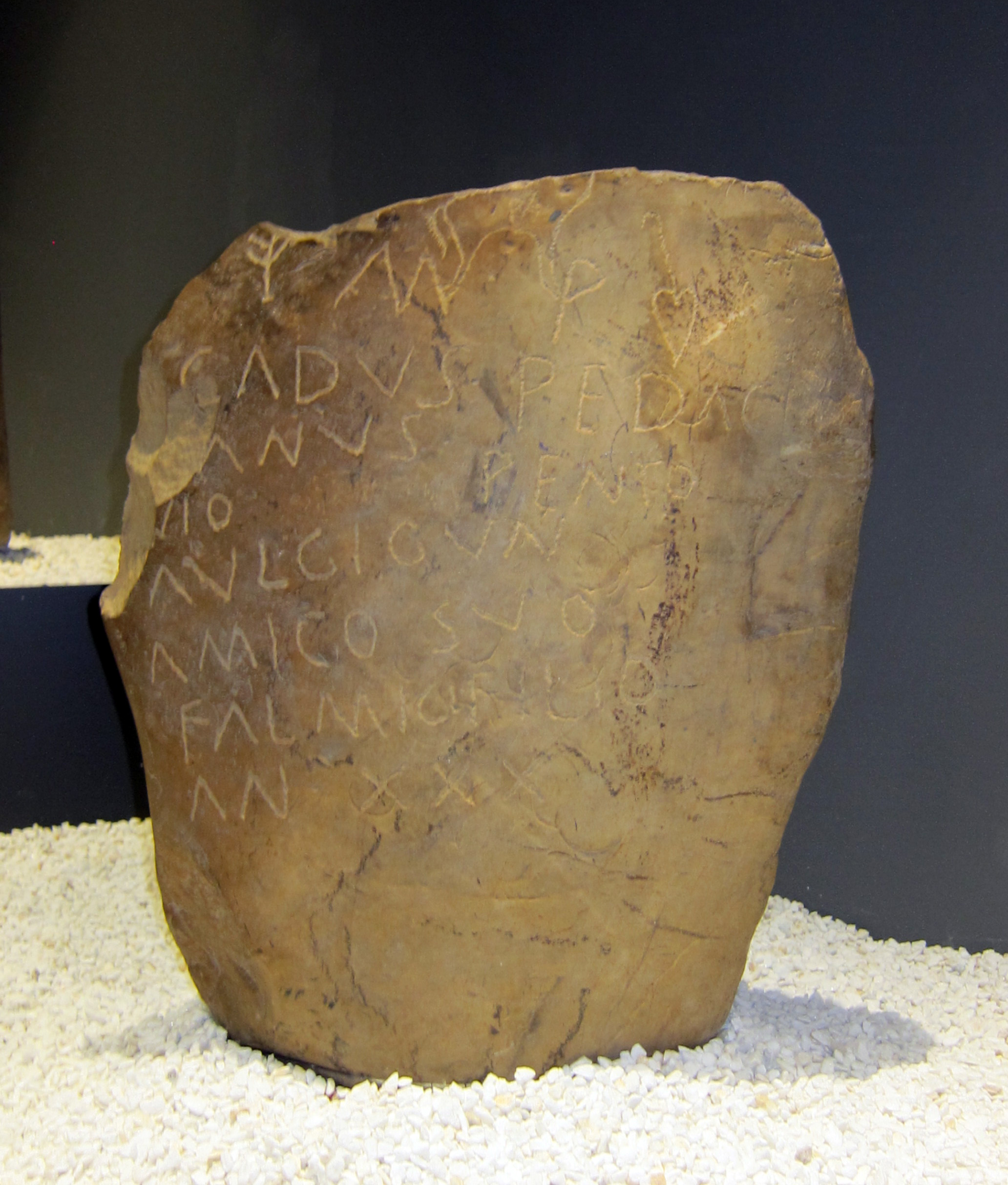 Museum of Prehistory and Archaeology of Cantabria. Stele for Pentovio, Velilla del Río Carrión (Palencia, Castile and León).